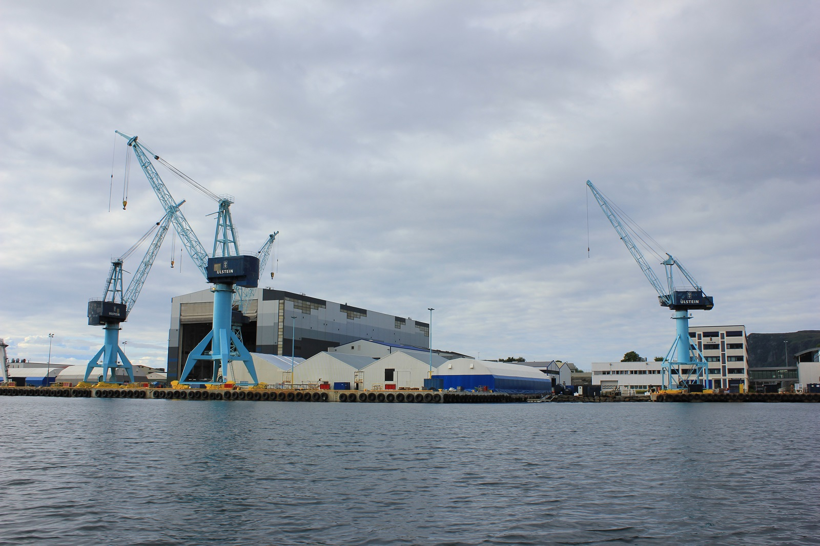 Ulstein verft AS, seaside view